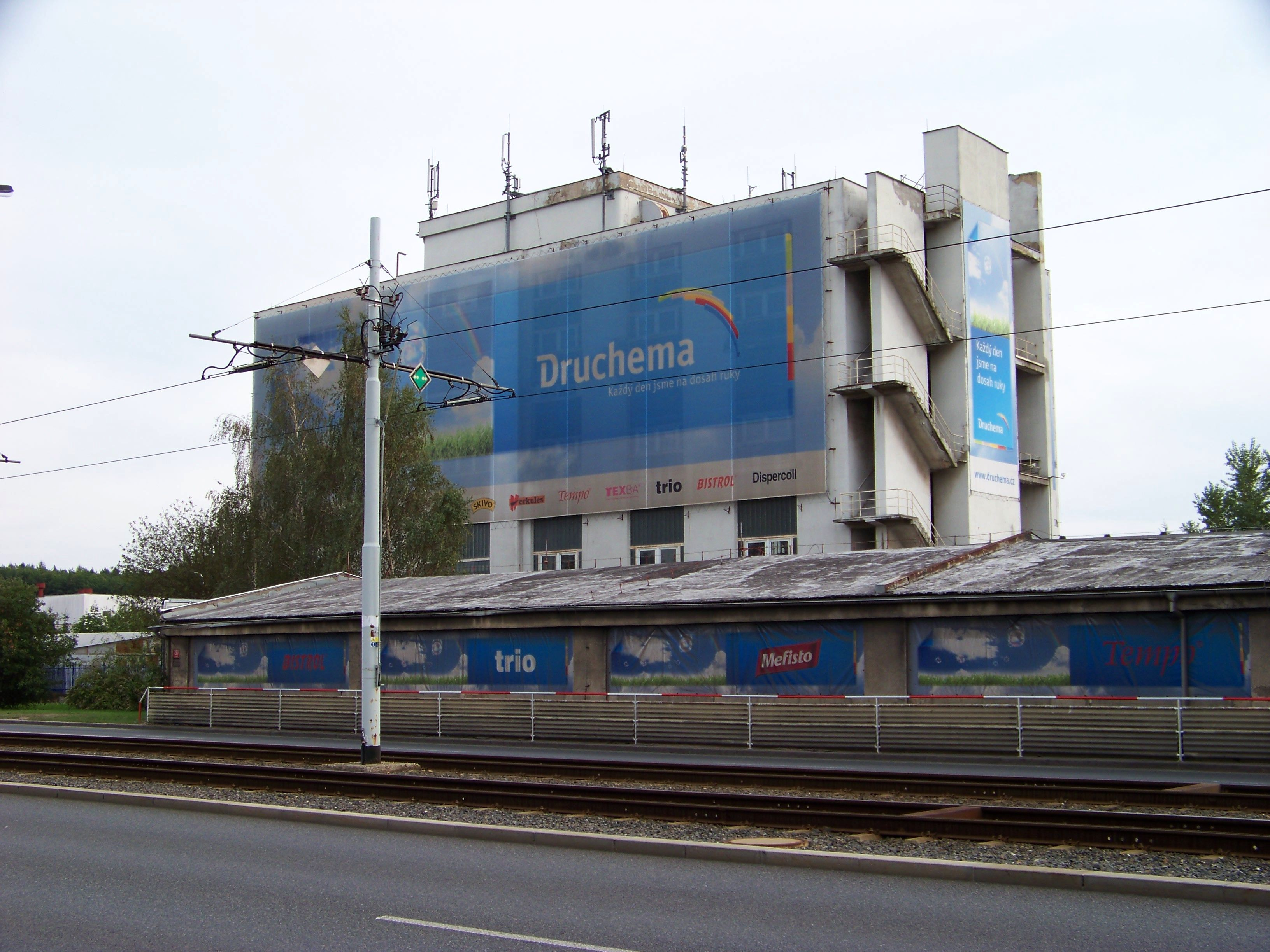 Prague-Strašnice, the Czech Republic. Černokostelecká 753/112 (Služeb 753/1), Druchema.